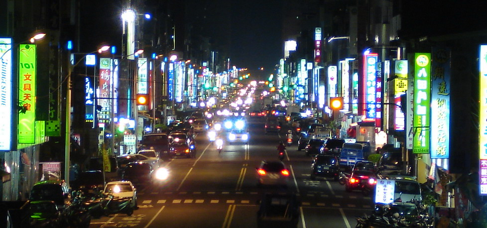 Chung Cheng Rd.(Zhong zheng Rd),WuFeng(WuFong)